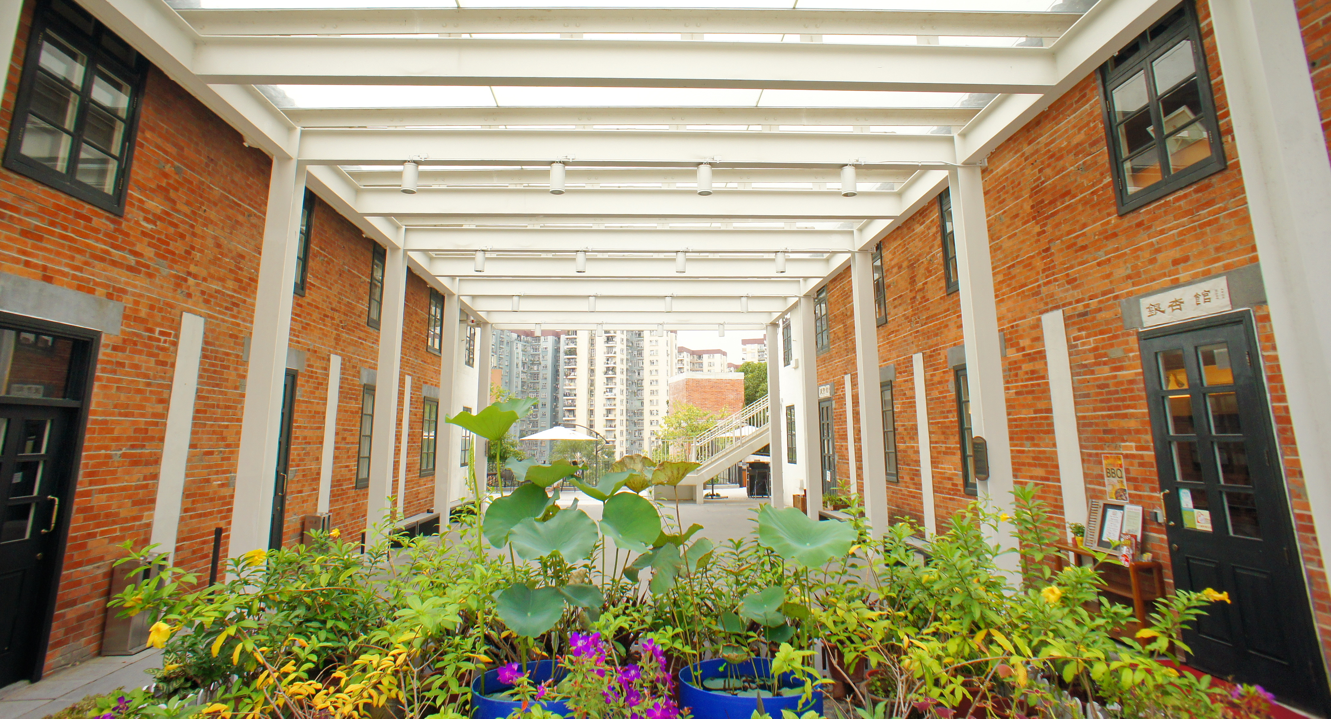 Skylight Atrium at the Middle Zone of the Jao Tsung-I Academy, Hong Kong.